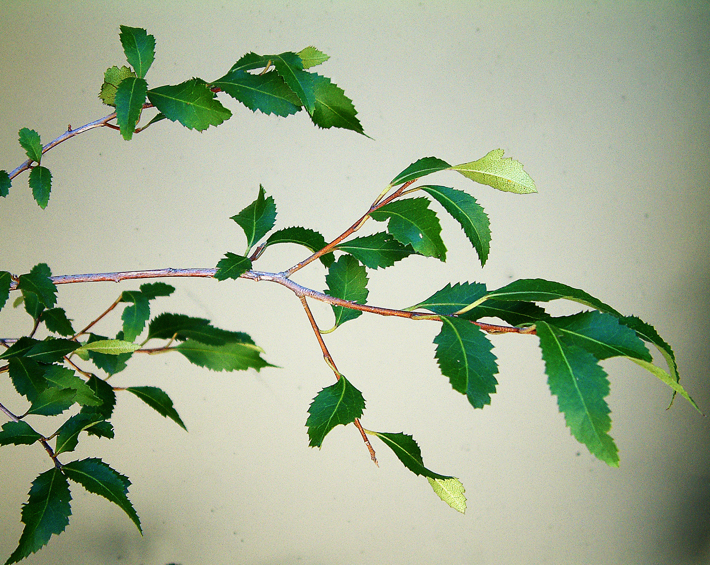 Ribbonwood adult style foliage (Queenstown, New Zealand)